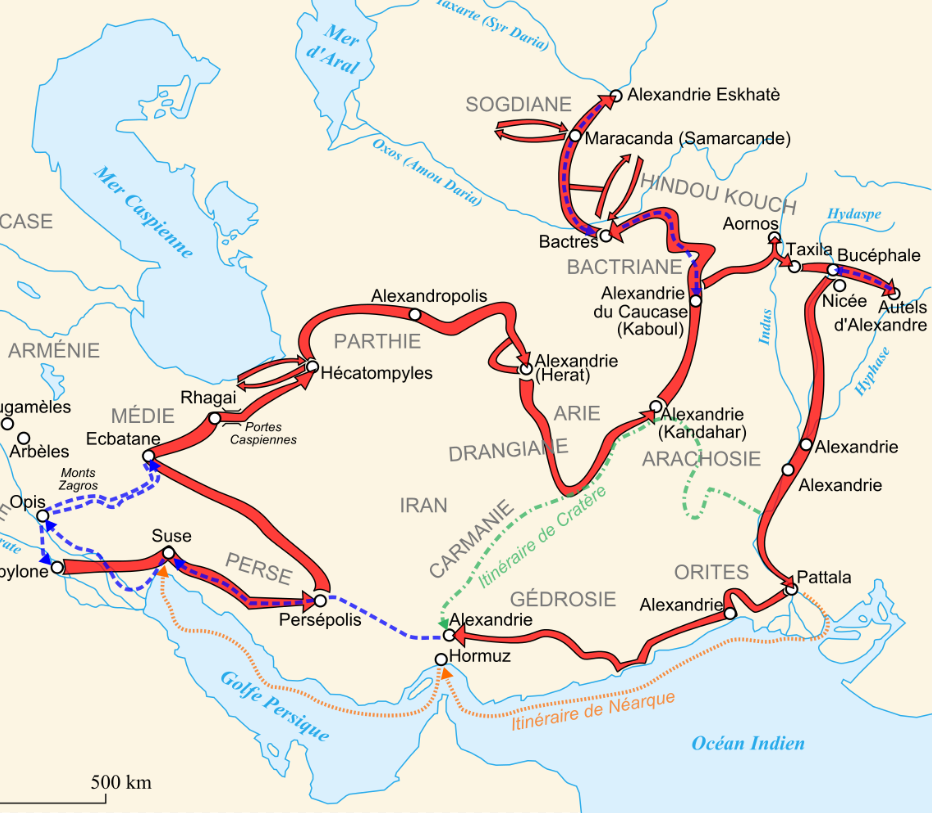 Alexander III "The great" conquest from Babylon to Indus and back to Babylon